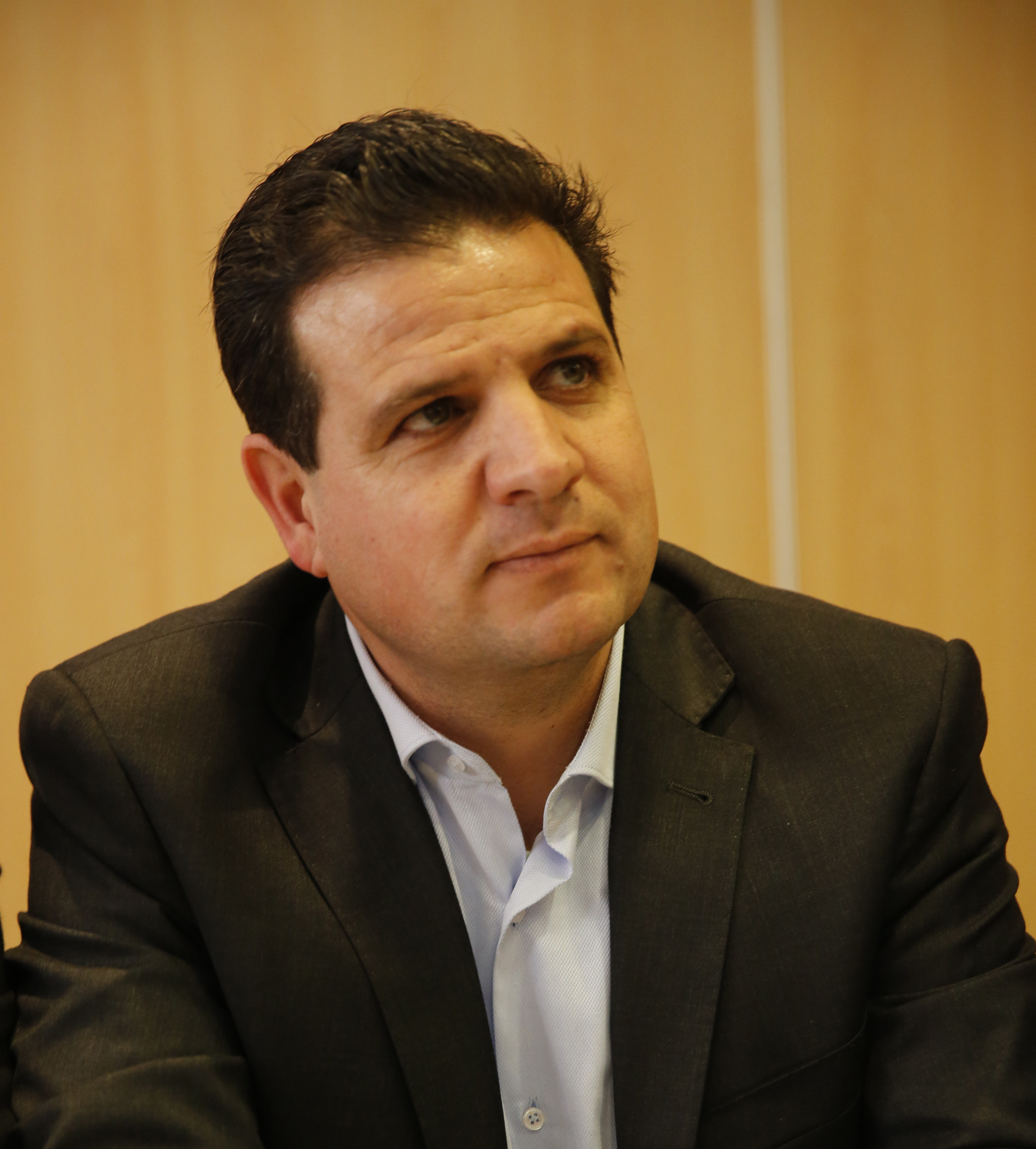 Ayman Odeh - an Israeli Arab lawyer and politician. Serves as the leader of Hadash.